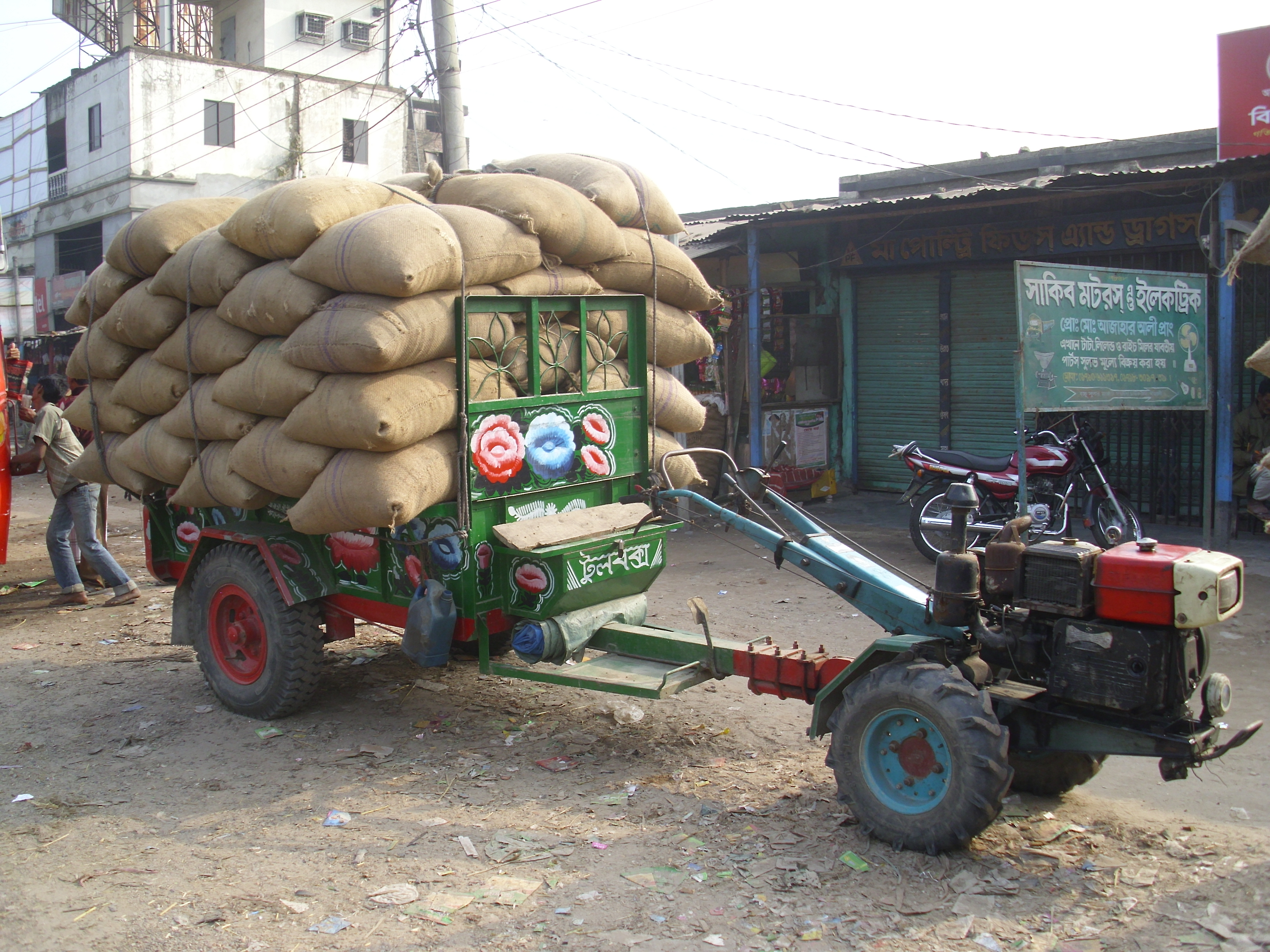 Chinese Sifeng Model 12 horsepower two-wheel tractor and trailer with 70 bags of rice each weighing 80 kilograms, waiting in line to enter an Ishurdi, Bangladesh rice mill.